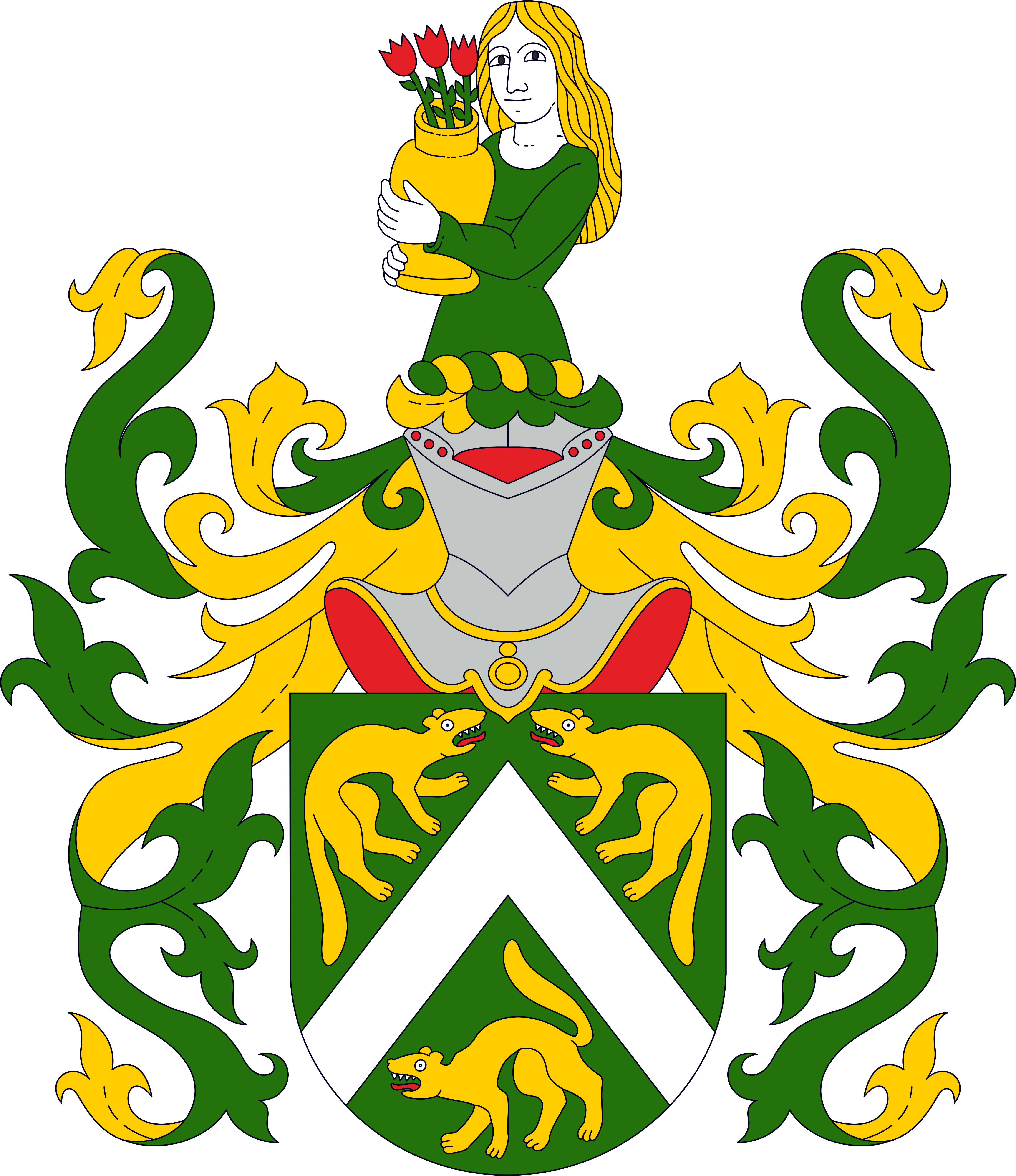 Coat of arms of Marek Sobola, heraldic artist